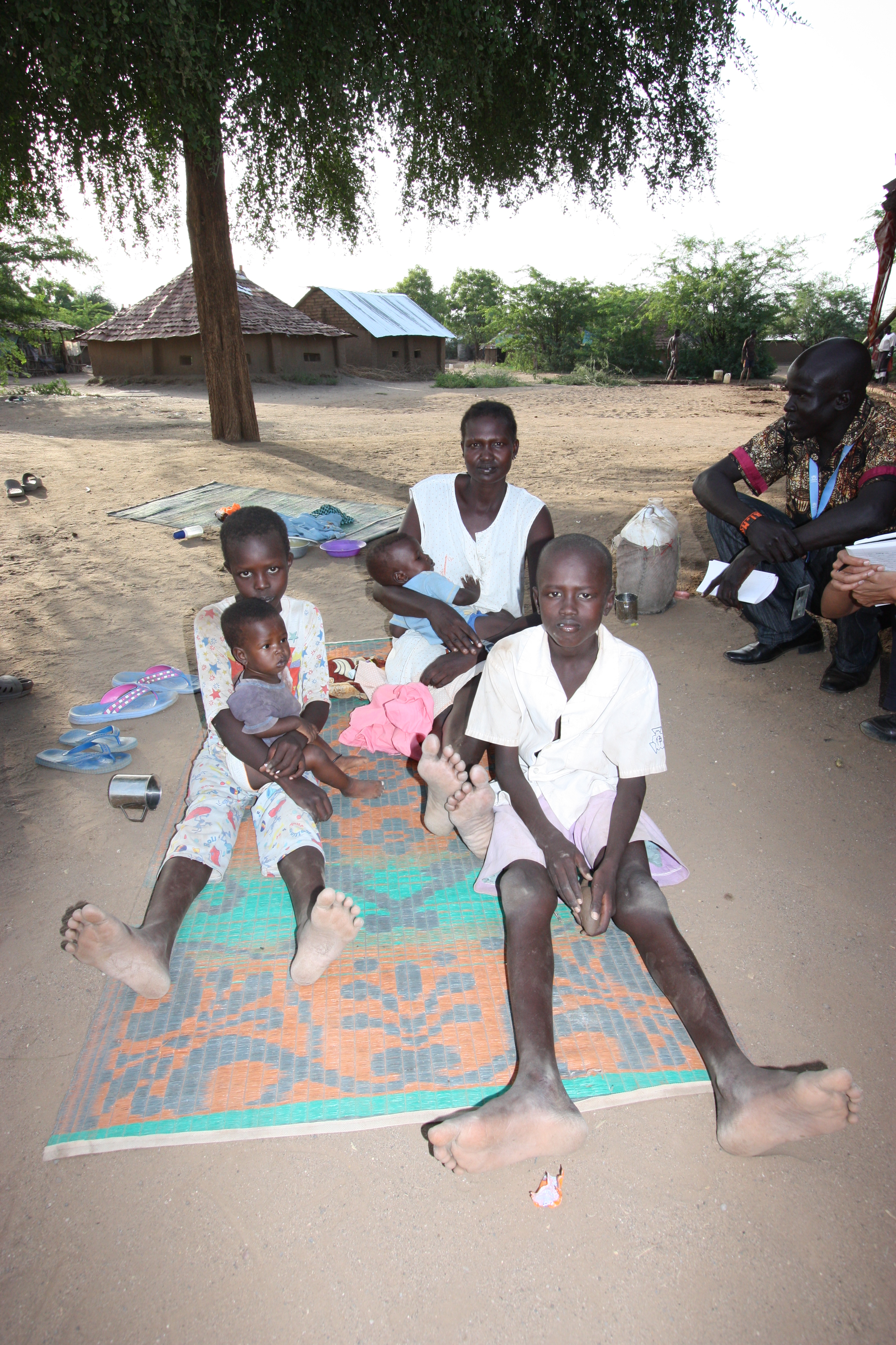 Nyadeng family of Jonglei State, South Sudan.